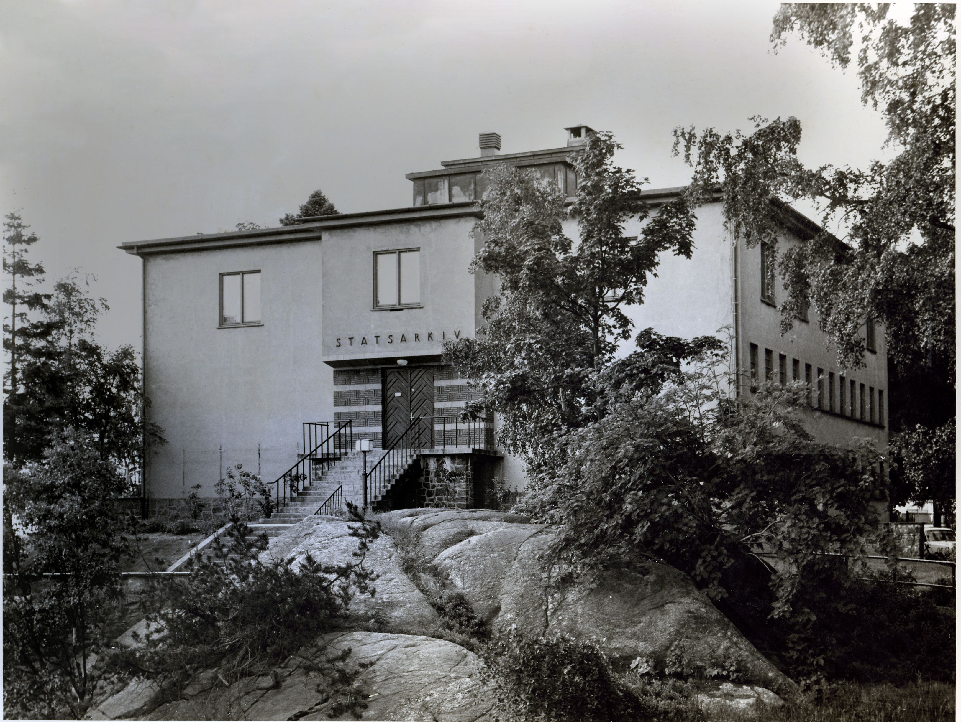 The Regional State Archives in Kristiansand, "Arkivet", ca 1969.